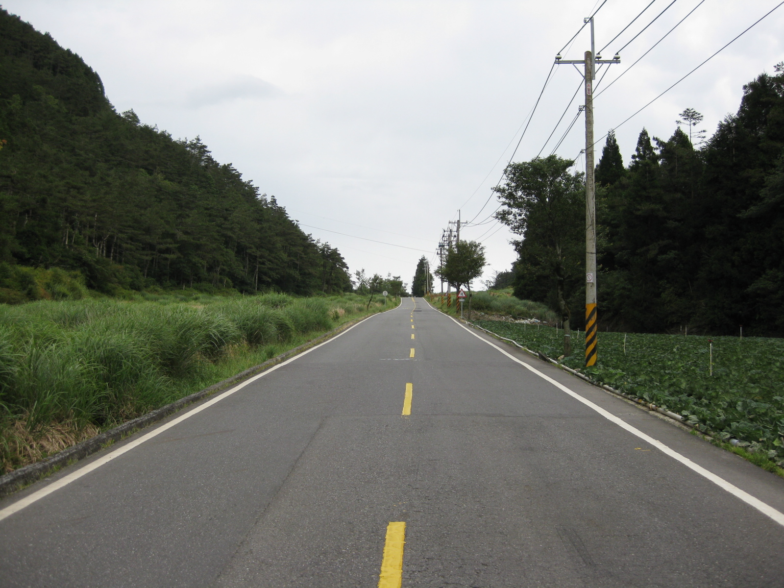 Sihyuan Wukou is a wind gap on the border of Yilan County and Taichung County in Taiwan.This picture shows Highway No.7C looking northbound through Sihyuan Wukou.